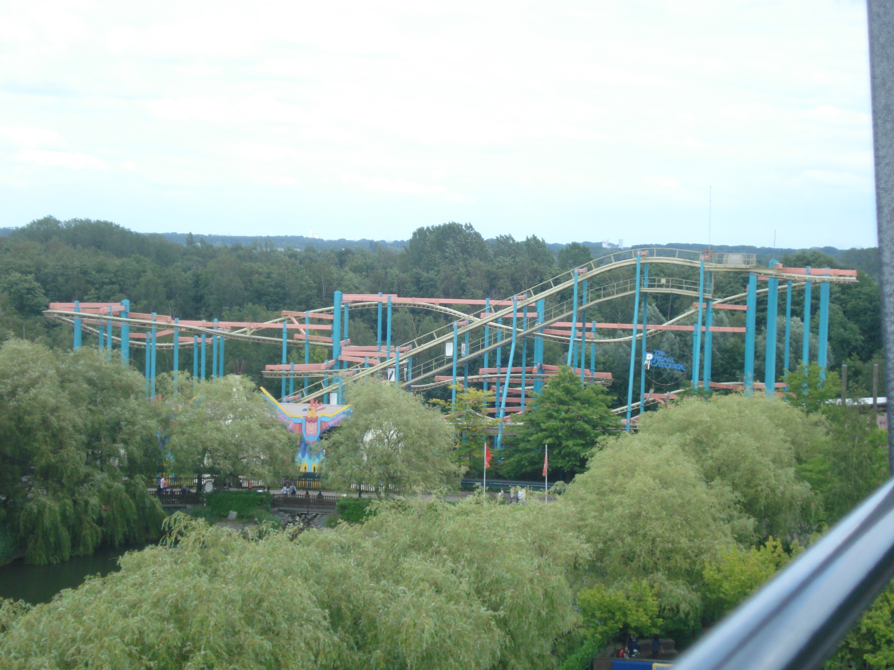 Bobbejaanland Dreamcatcher